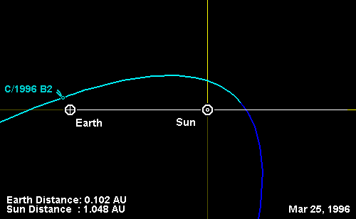 Part of the orbit of the comet C/1996 B2 (Hyakutake). In the picture, Comet Hyakutake is represented in the point of maximun approach to the Earth, on 1996, Martch 25th. Comet Sun distance and Earth distance are reported.